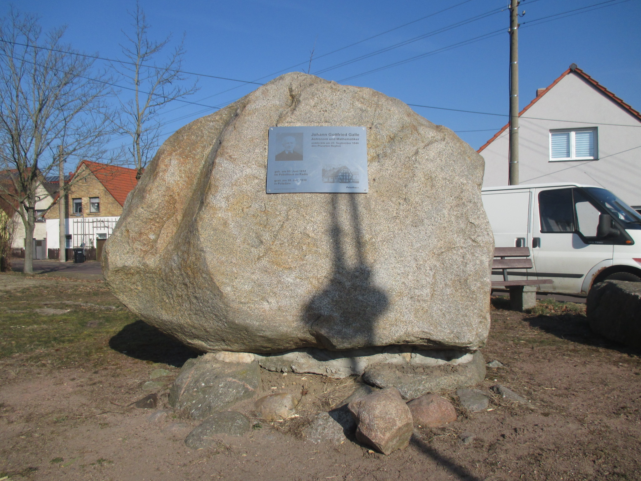 Monument for Johann Gottfried Galle at a planet trail in Radis.